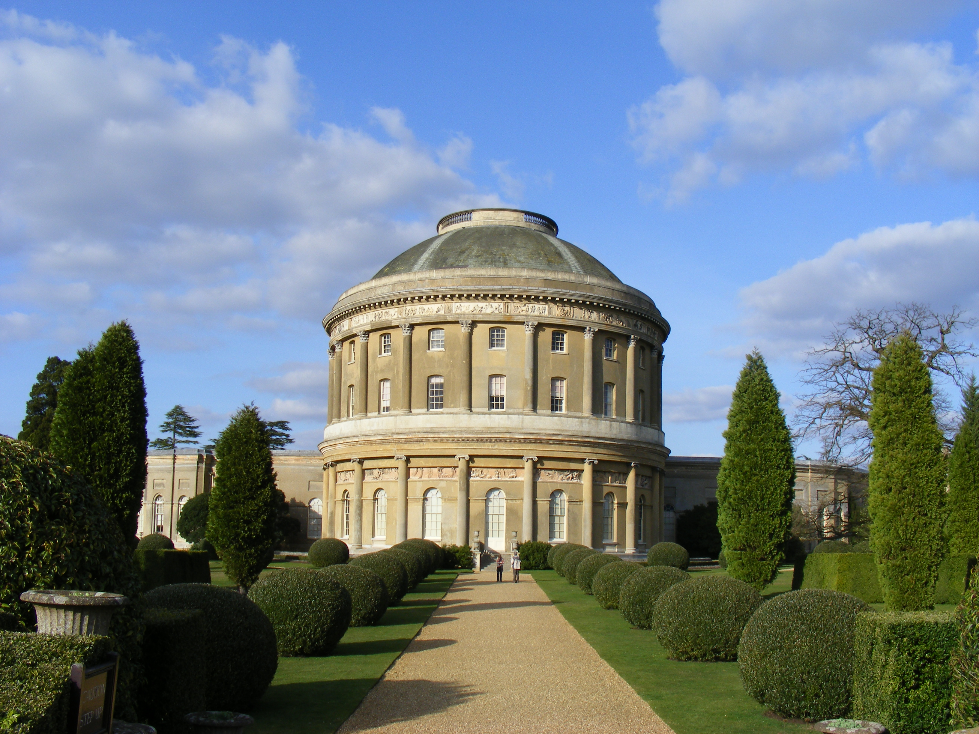 Rotunda at Ickworth House